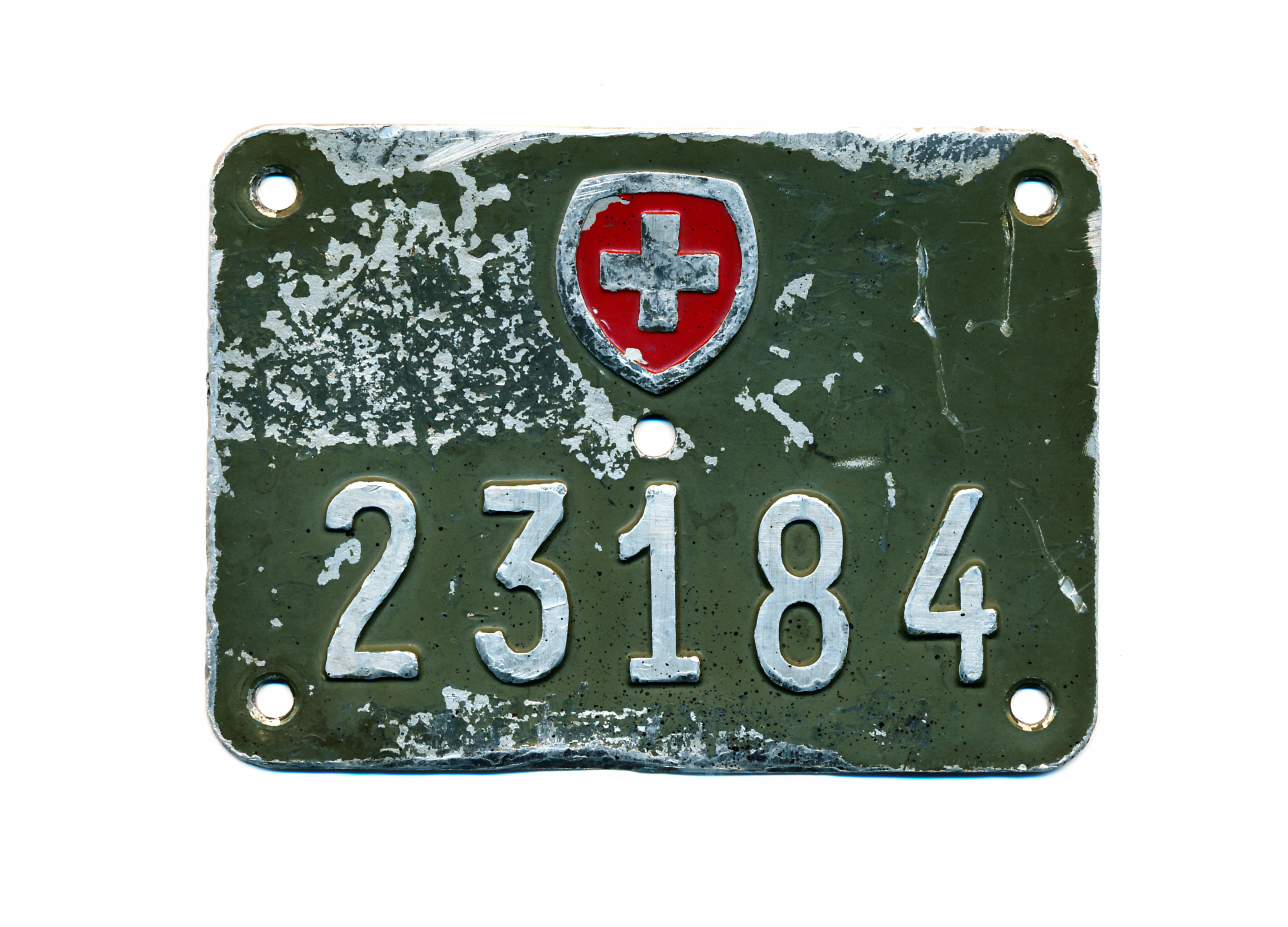 Bicycle License Plates Swiss